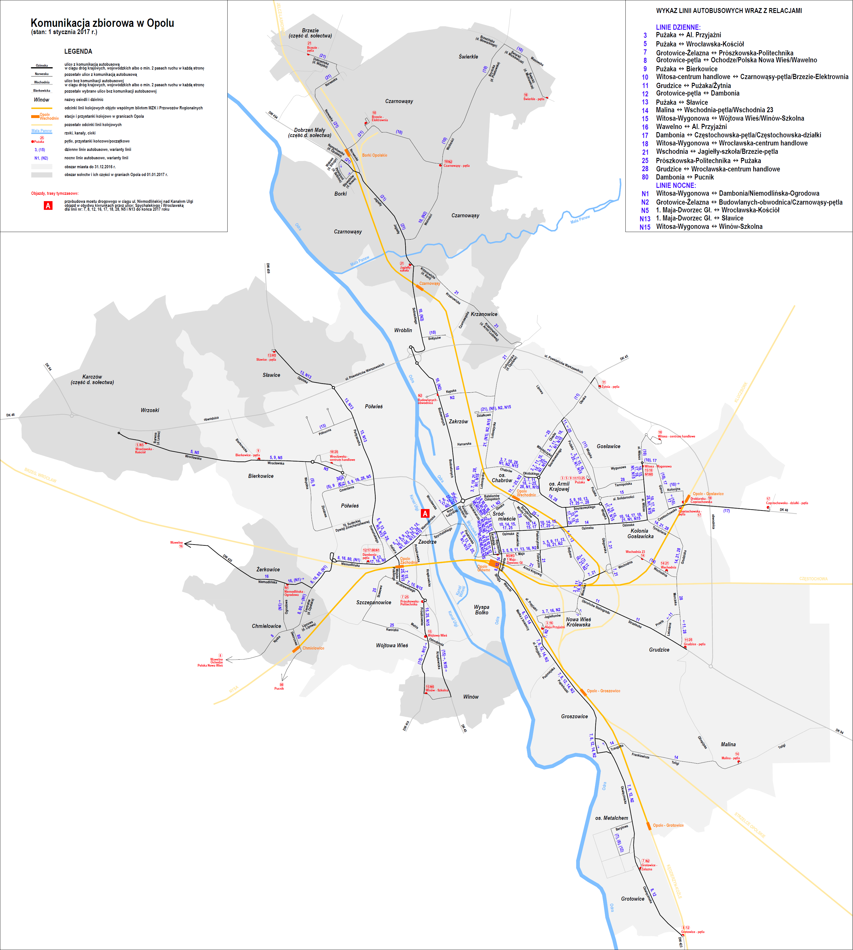 The map of Opole's daily public transport (bus lines)